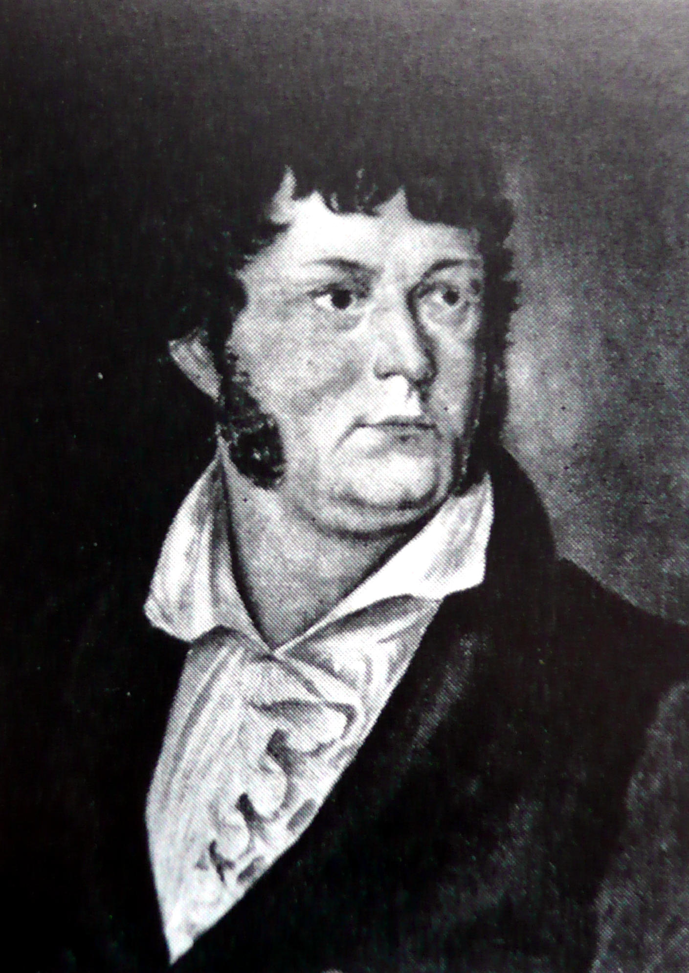 Ernst August Geitner (1783-1852) was a german chemist, physician, botaniker and inventor. He was prominent in development of nickel silver.